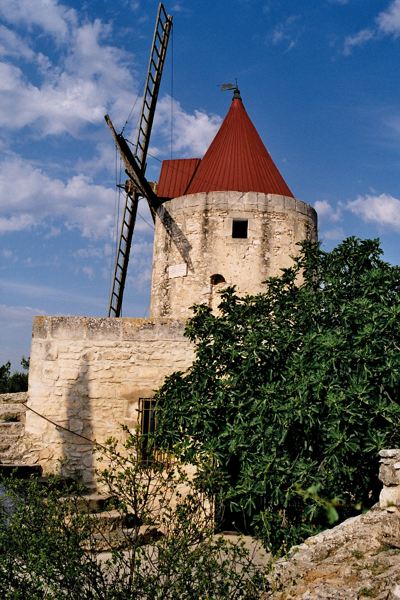 Windmill of Alphonse Daudet (Alpilles)